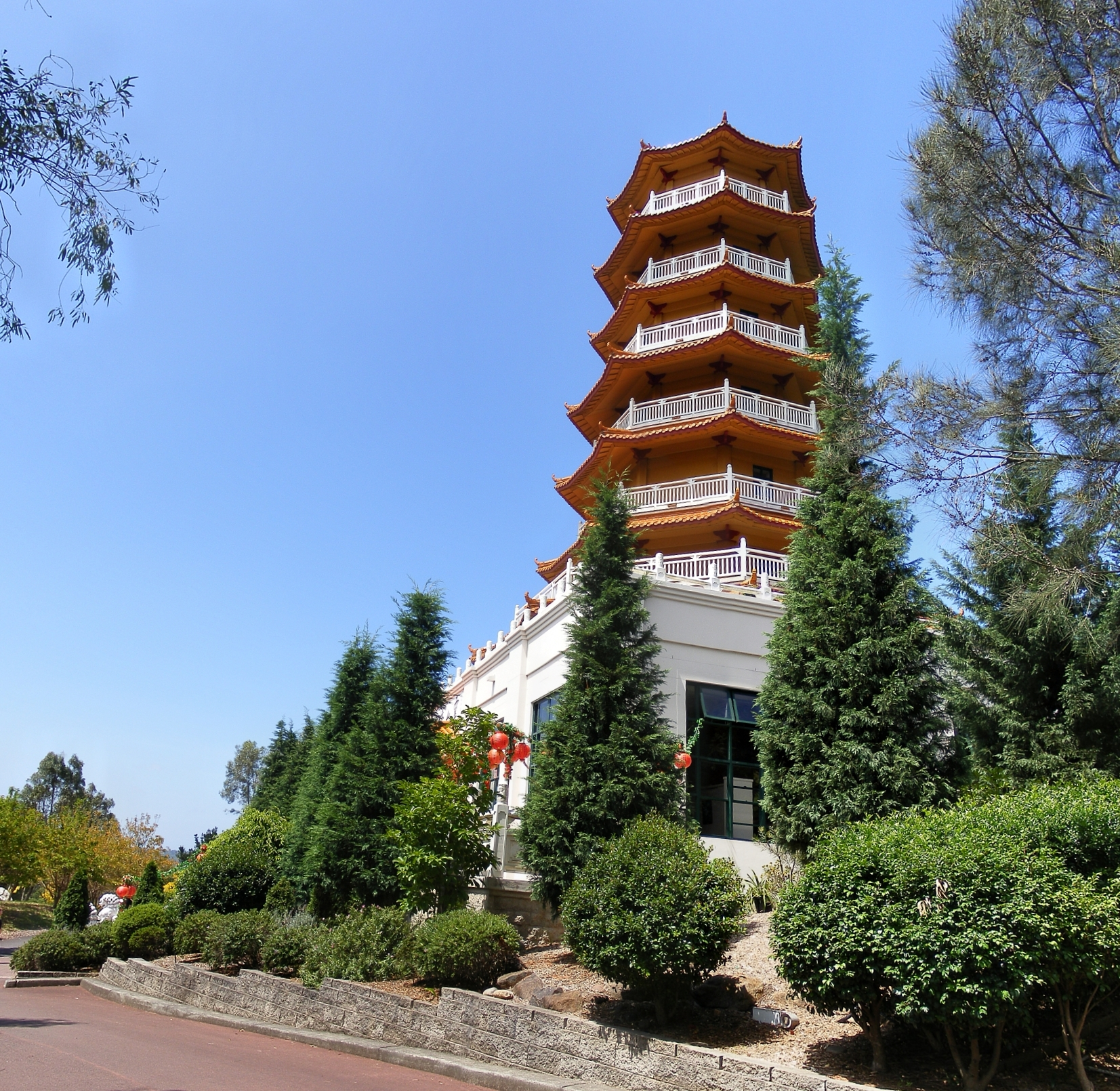 Nan Tien Temple Wollongong, New South Wales